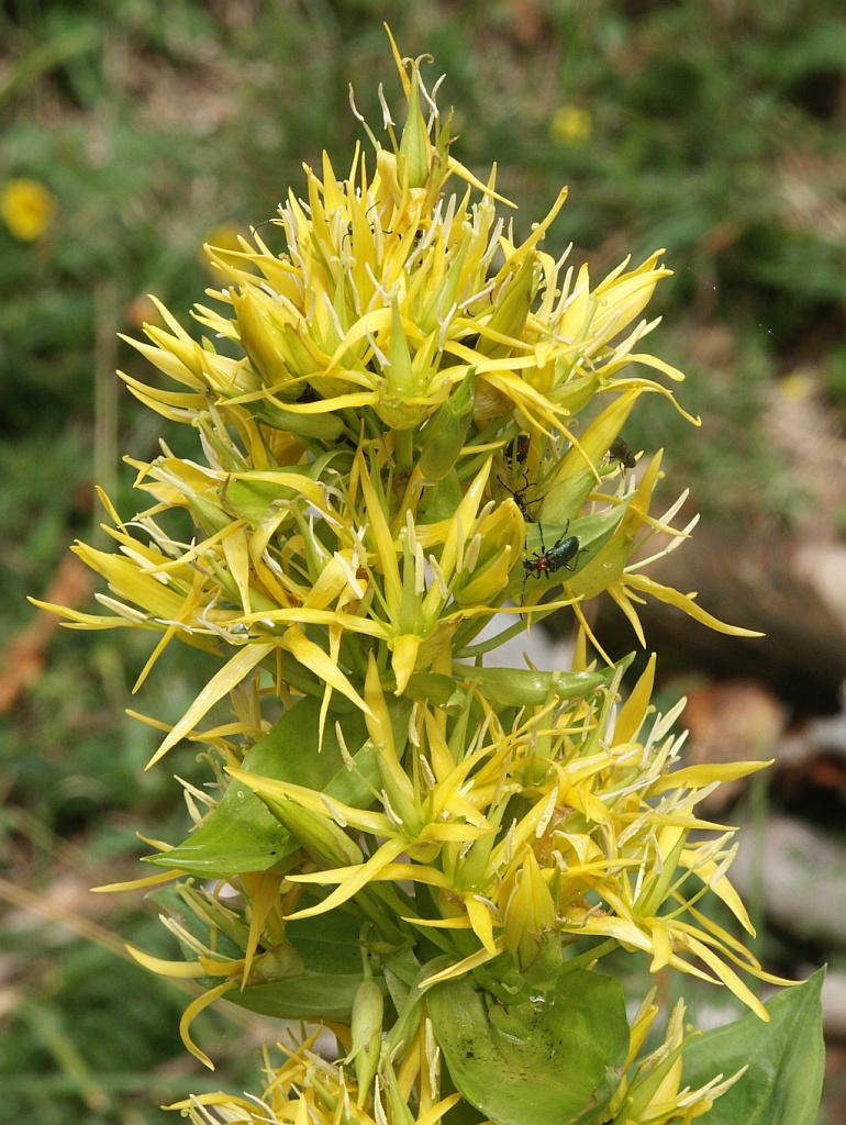 Gentiana lutea, Tannheimer Tal, Austria